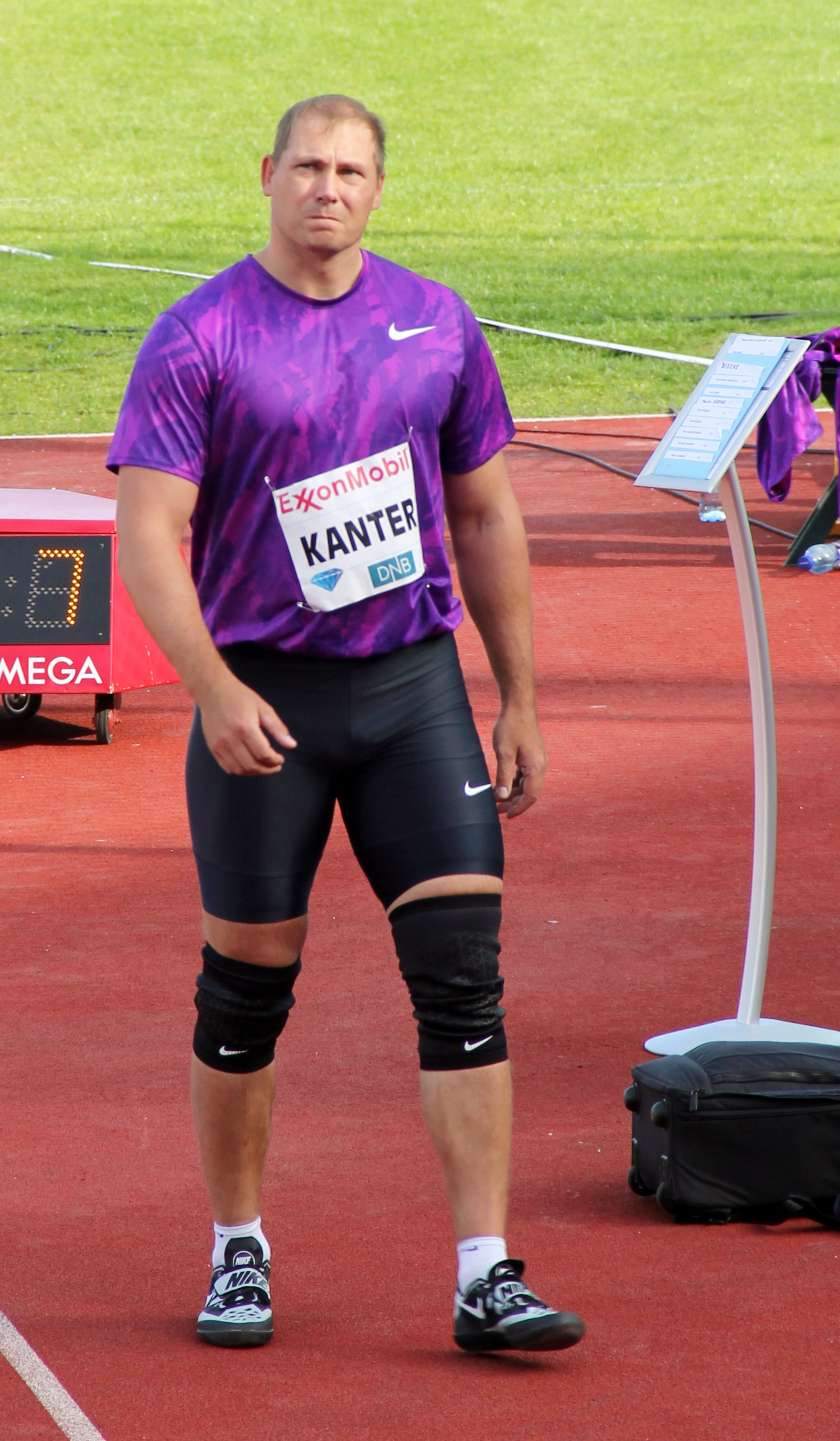 Gerd Kanter at the 2015 Bislett Games